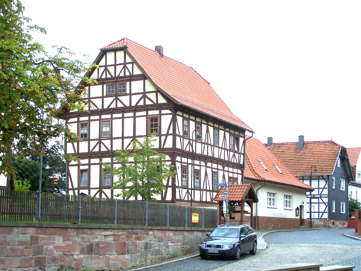 In the village - Kirchplatz